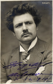 Giuseppe Borgatti (1871-1950) Although this photograph is undated, Borgatti started losing his sight in 1907 and was blind in both eyes by 1914.